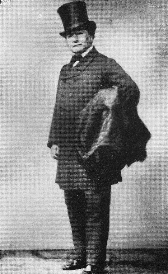 Photo by an unknown photographer of the choreographer Joseph Mazilier, circa 1860. Photo comes from my own collection and was scanned by me. Mrlopez2681 04:26, 11 August 2006 (UTC)